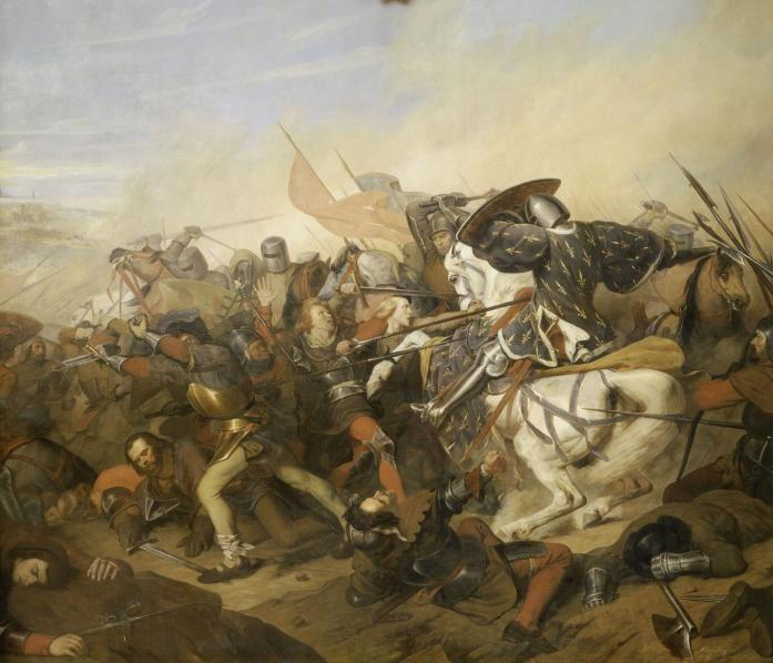 The Battle of Cassel on 23rd August 1328